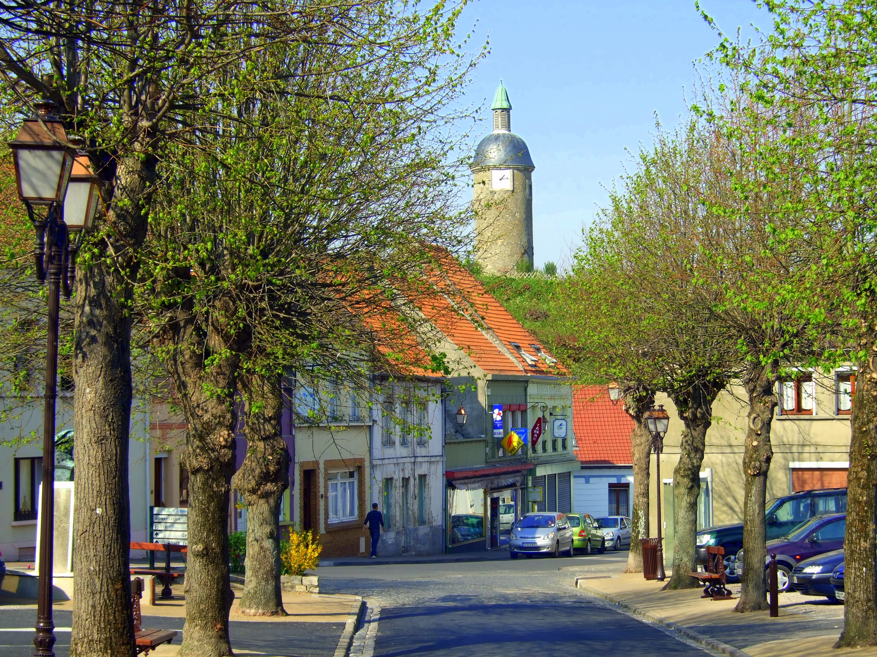 Place des Tilleuls, Guînes, France. In the background is the Tour de l'Horloge, built in 1763 atop a medieval motte.